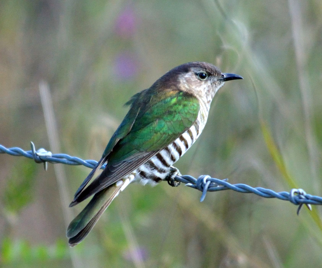 A Shining Bronze Cuckoo in Brisbane, Queensland, Australia.